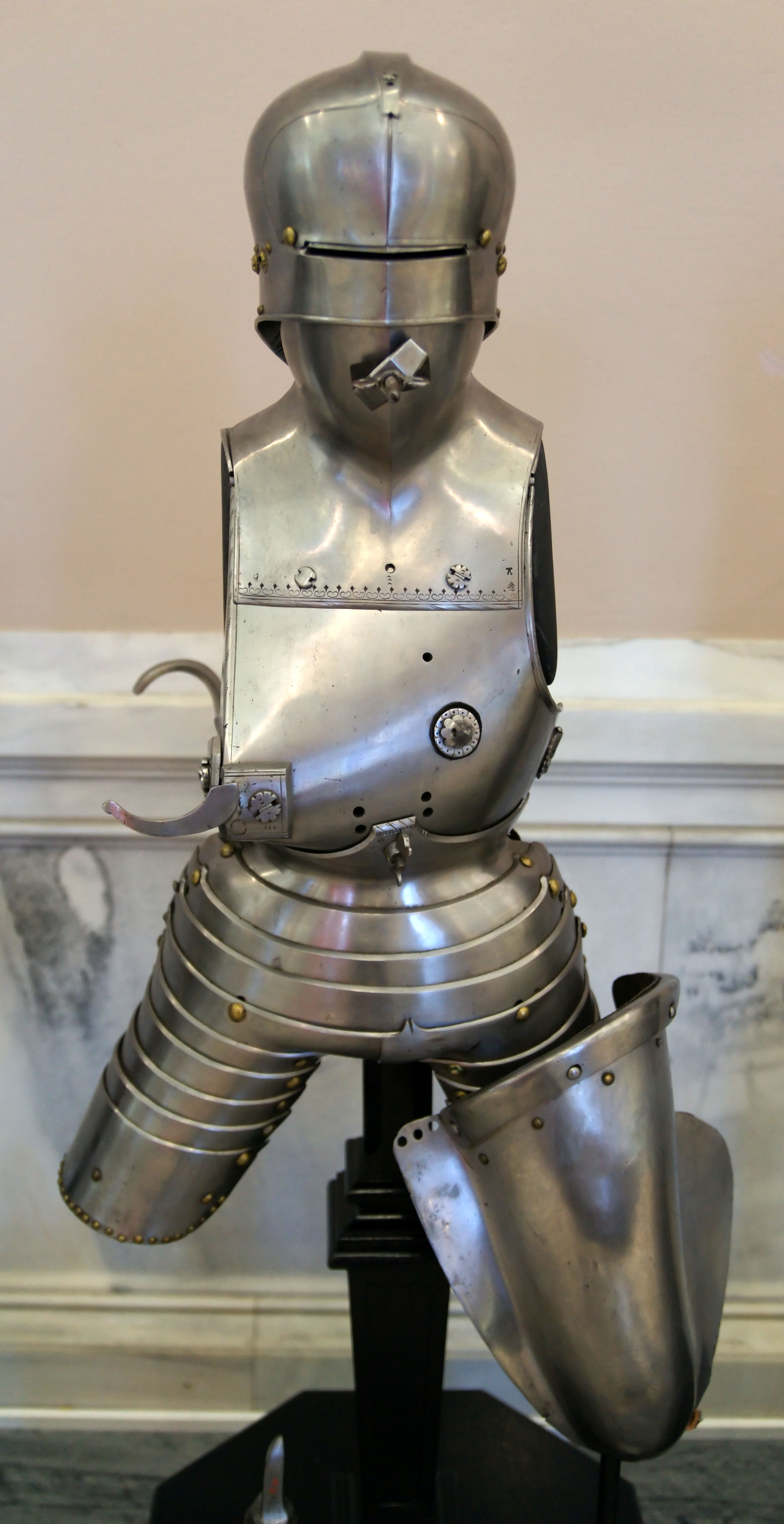 Racing armour of John, Elector of Saxony, known as John the Steadfast or John the Constant (13 June 1468 – 16 August 1532), dated 1498.